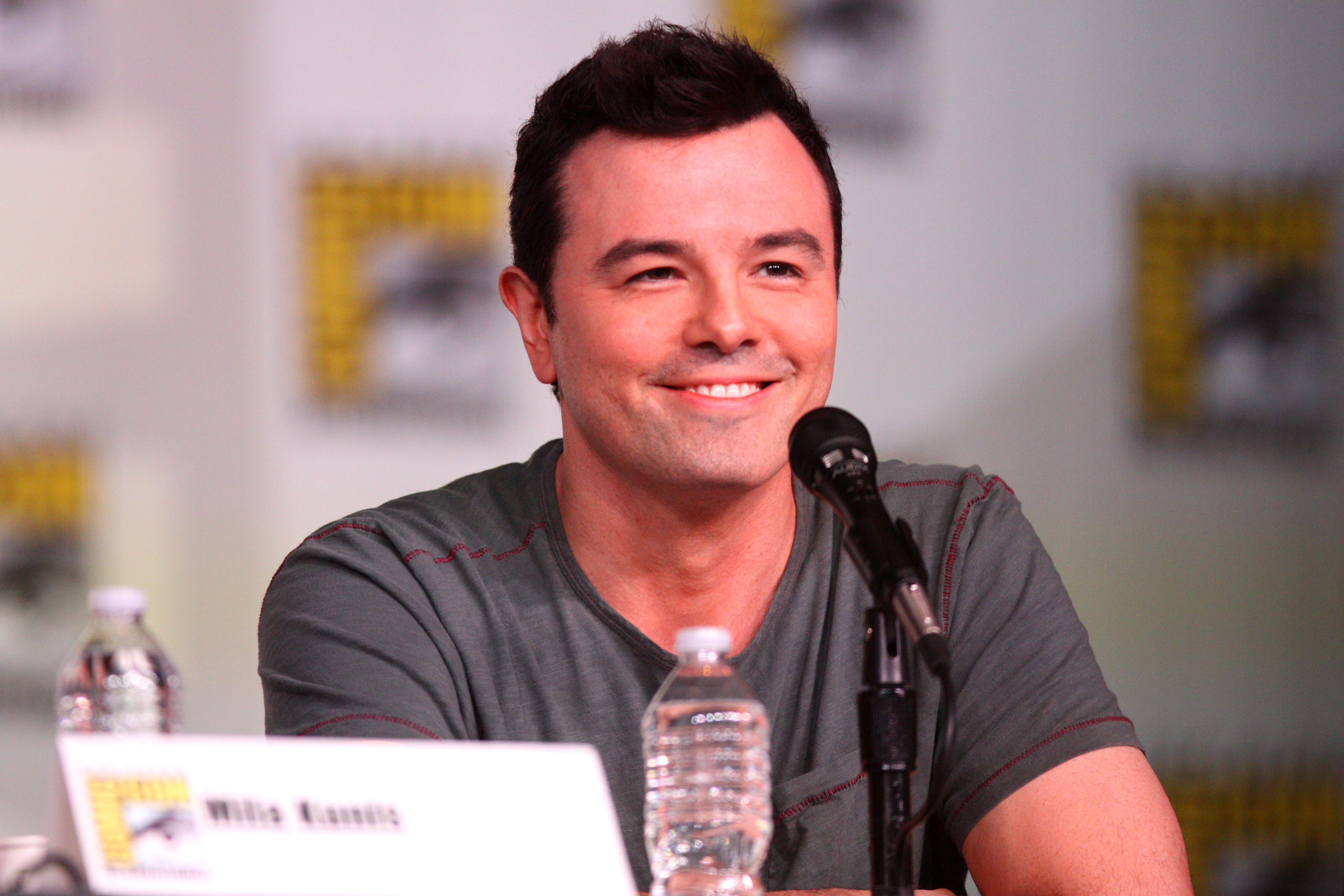 Seth MacFarlane speaking at the 2012 San Diego Comic-Con International in San Diego, California.